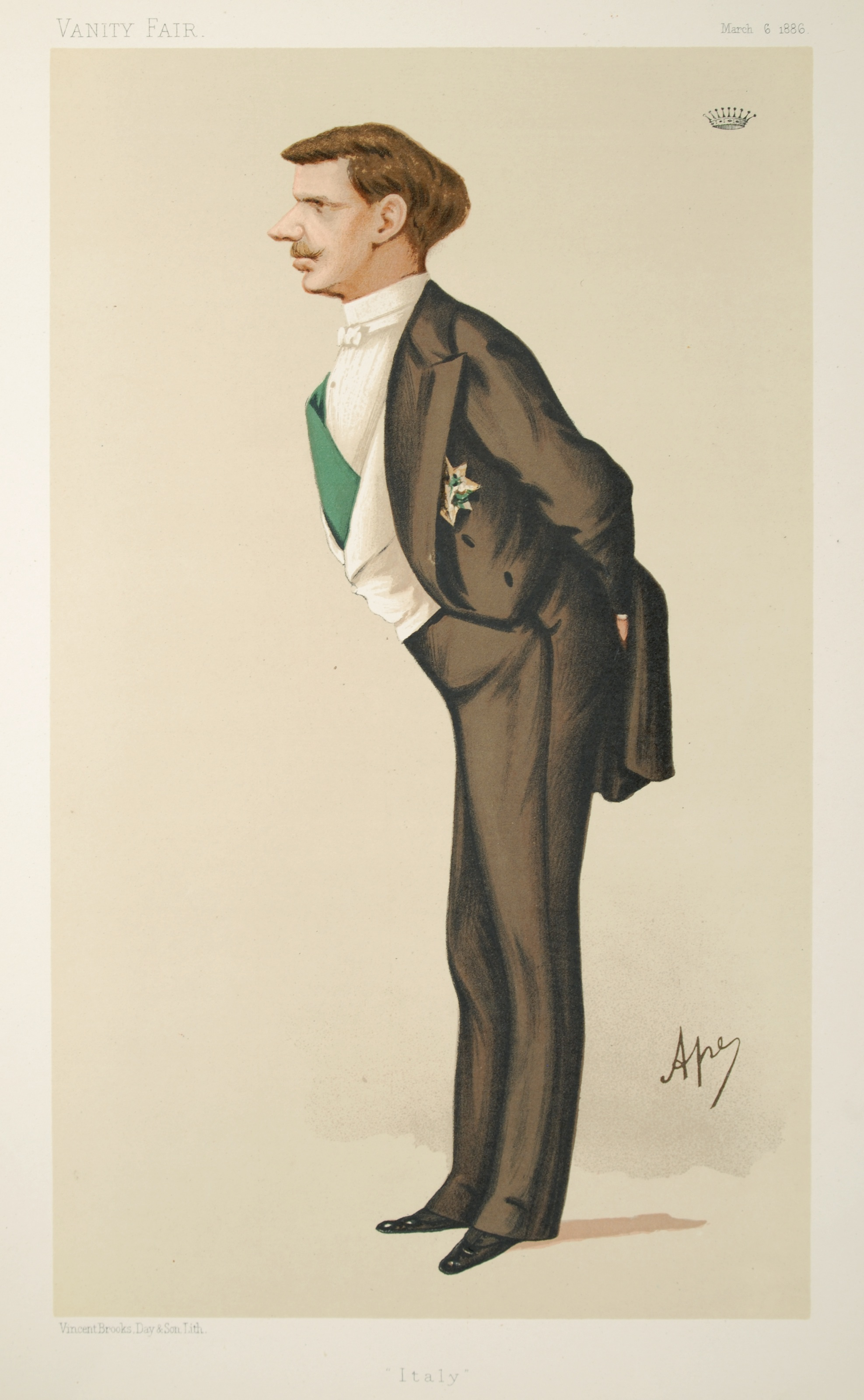 Statesmen No.483: Caricature of Count Nigra. Caption reads: "Italy."